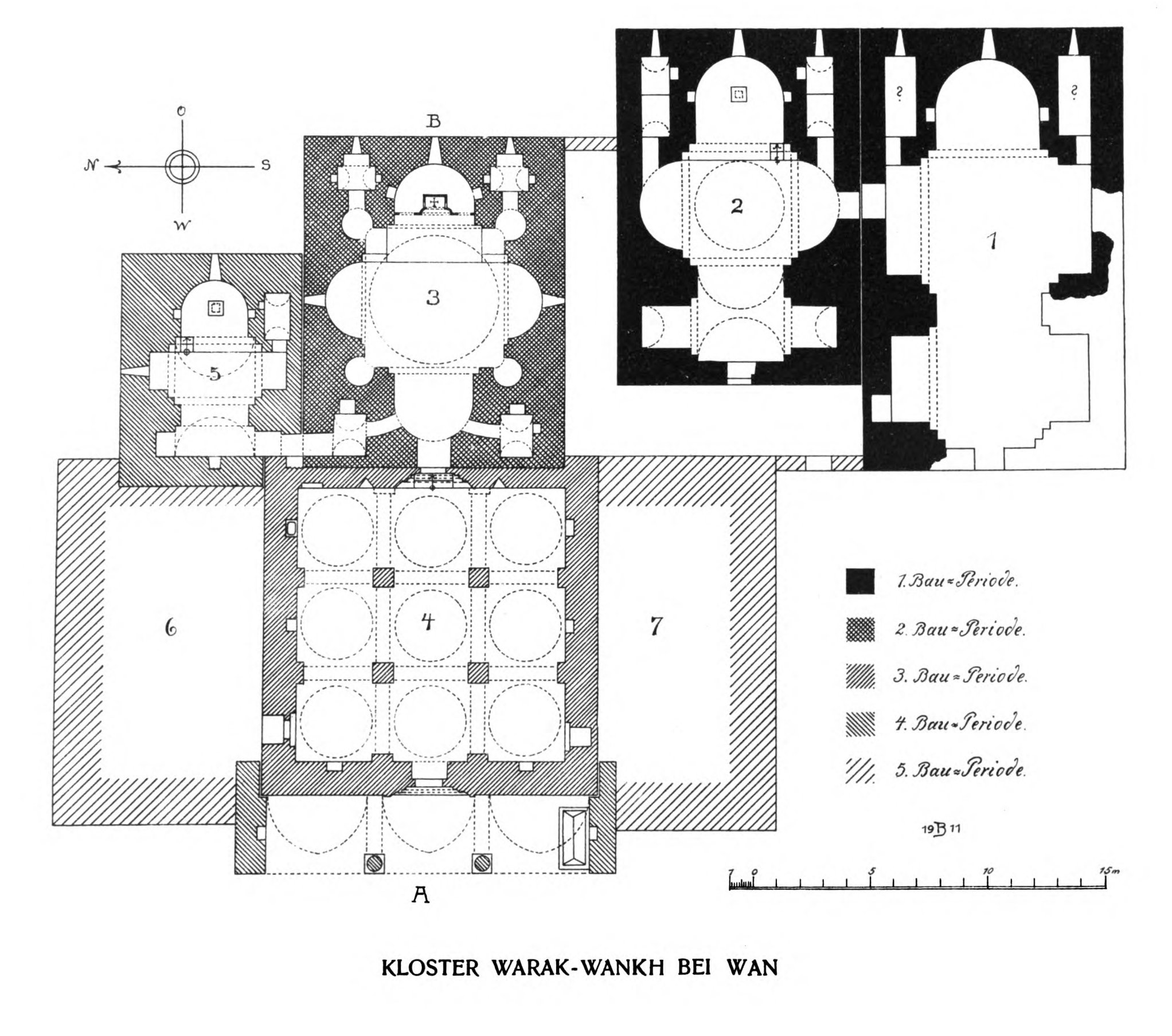 Varagavank